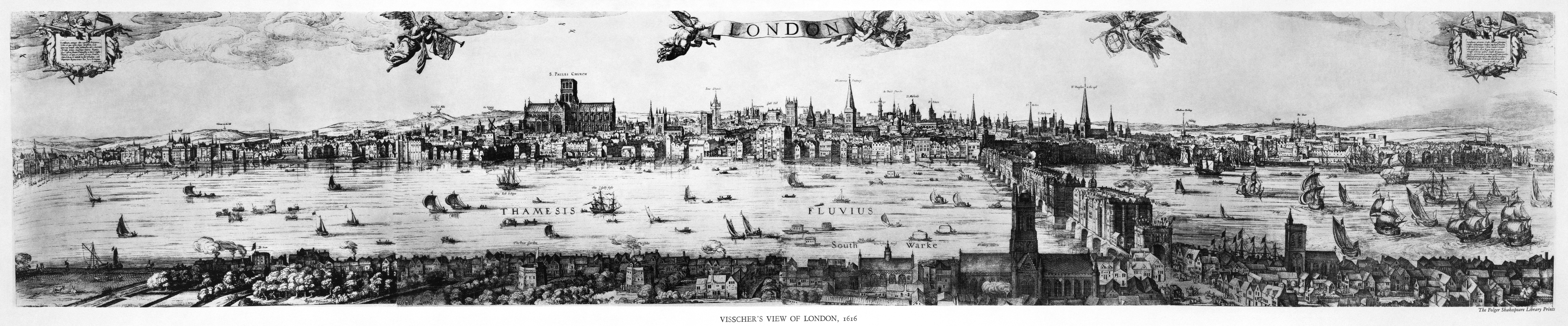 Visscher's view of London, 1616